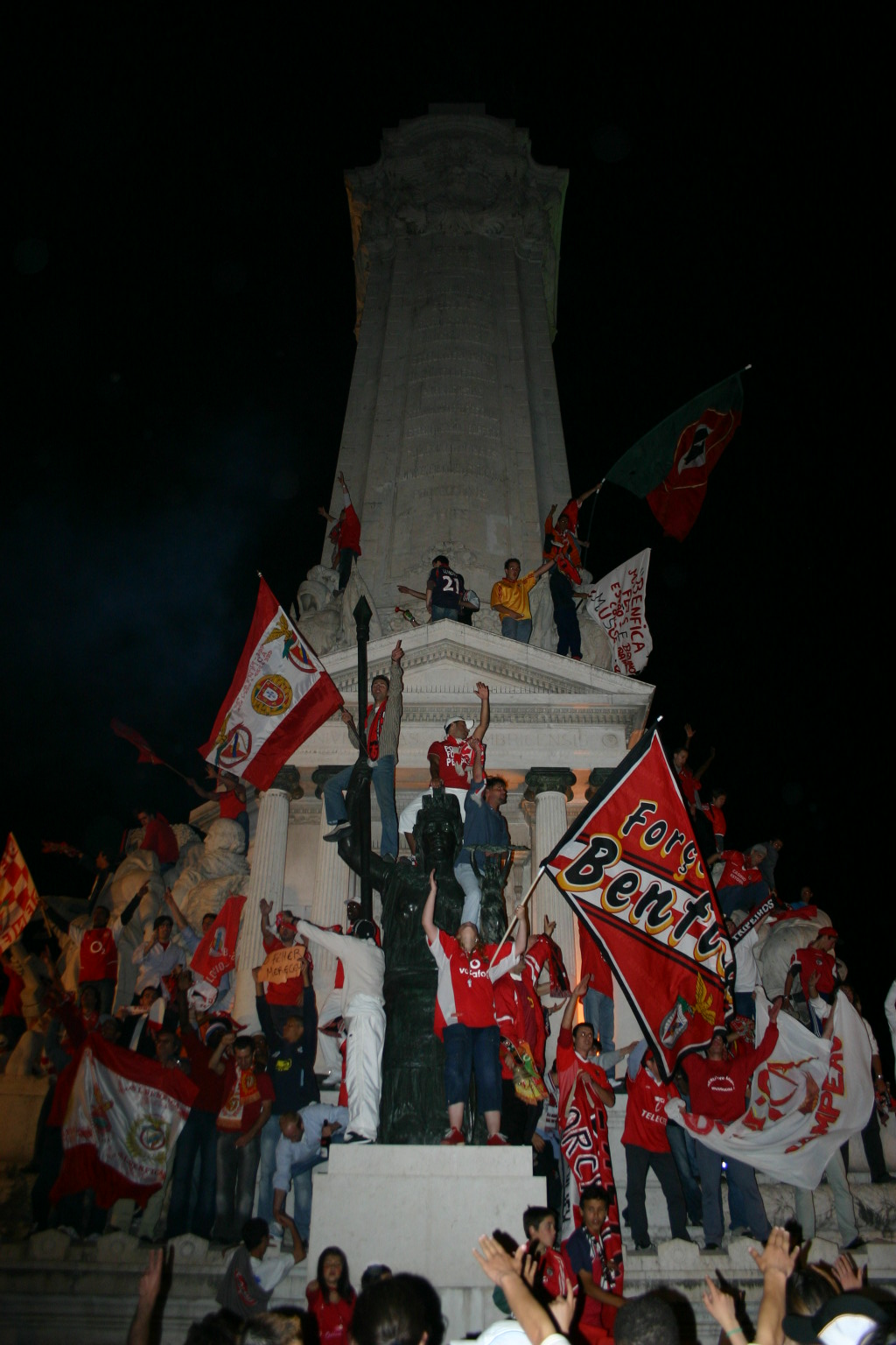 Autor: António ML Cabral Esta foto pode ser usada para qualquer tipo de utilização com a condição de ser indicado o nome do autor. This picture can be used for all kinds of usage with the condition of the author's name to be indicated.